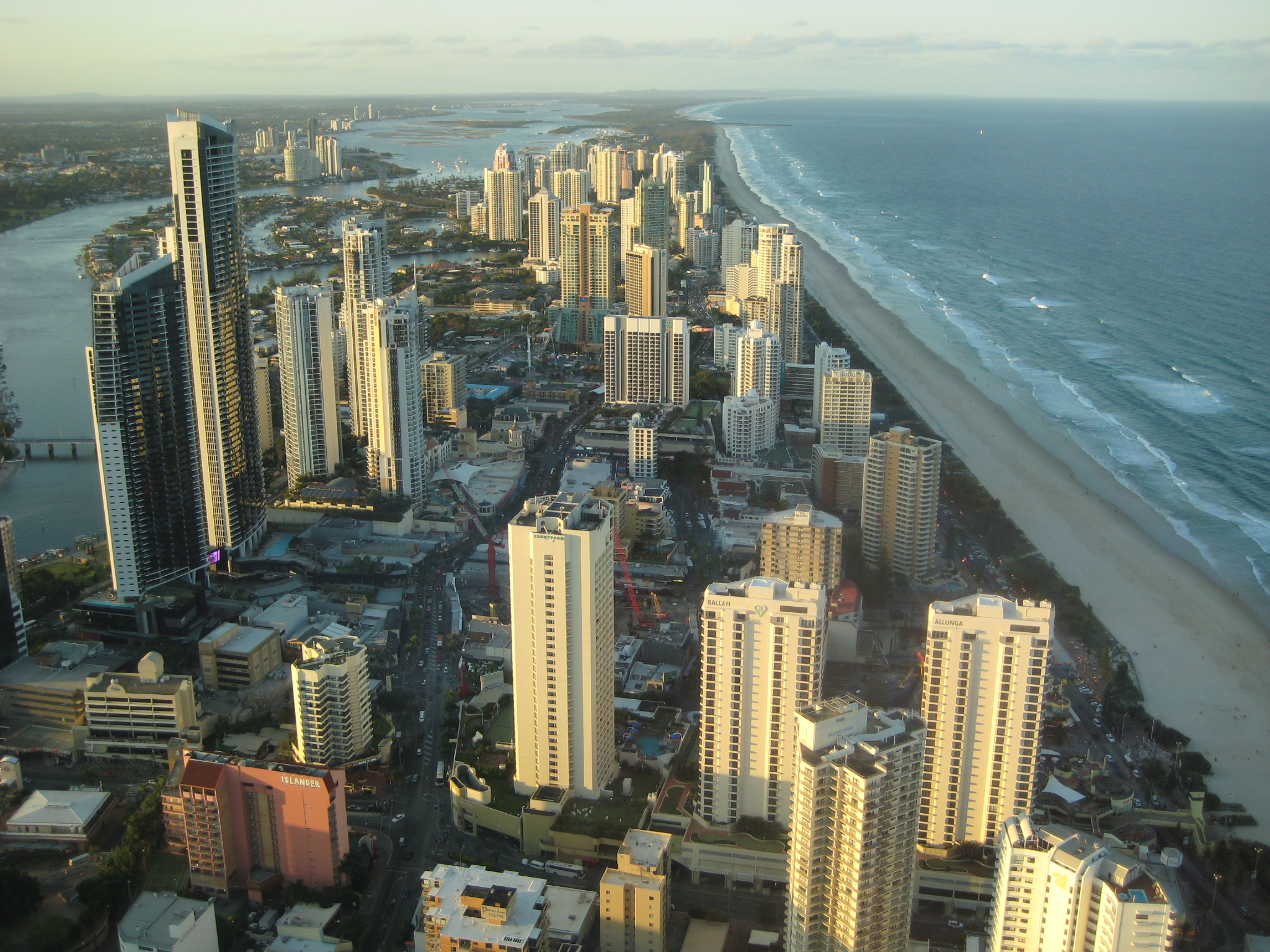 The Gold Coast in Queensland, taken from the Q1 tower.